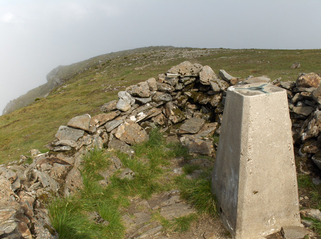 Carn Eige. Sunshine above the cloud on the summit, altitude 1183 metres.